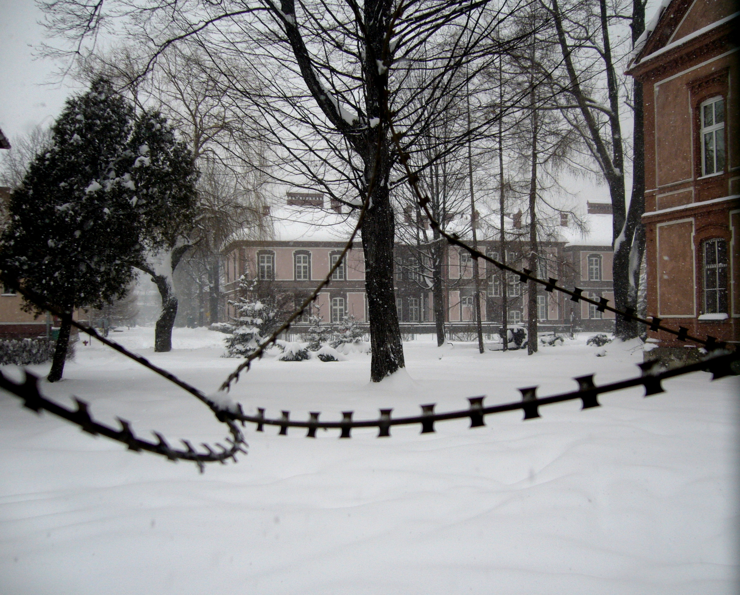 Barracks in Bielsko-Biała, Poland.